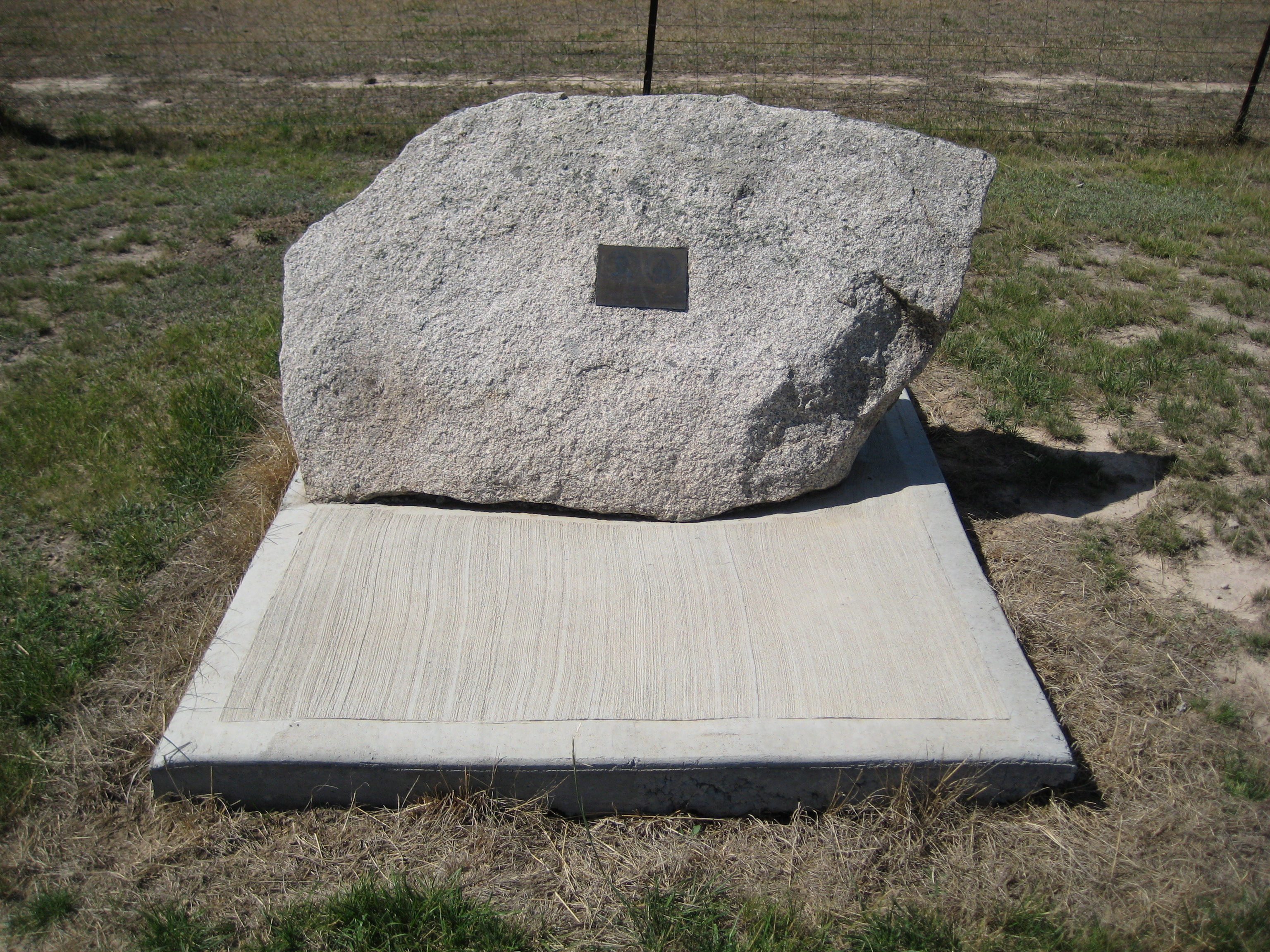 Grote Reber memorial, Molonglo Observatory Synthesis Telescope, near Bungendore, Australia